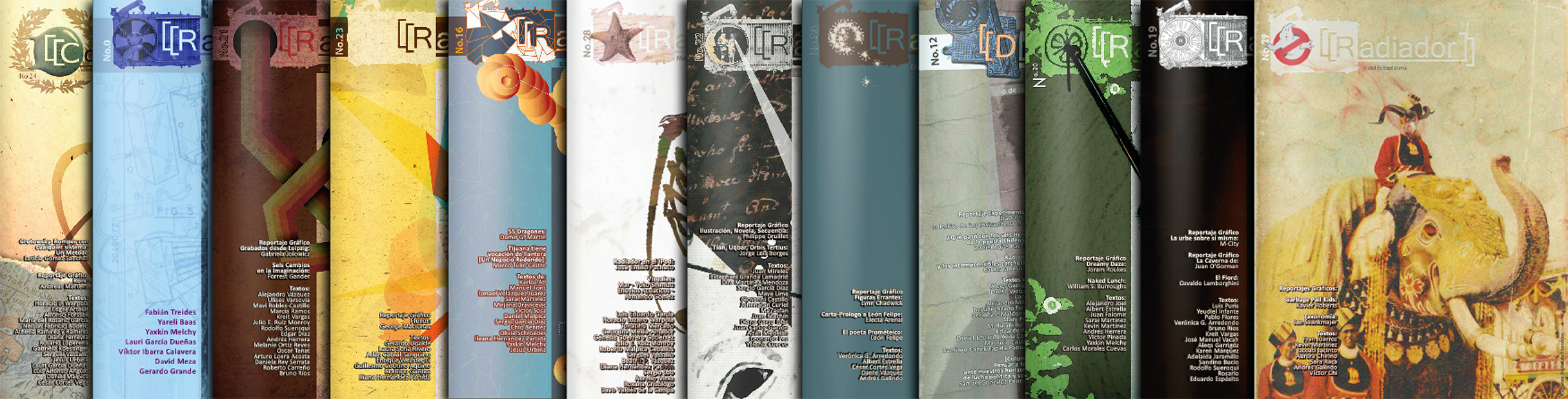 Various Radiador Magazine Covers